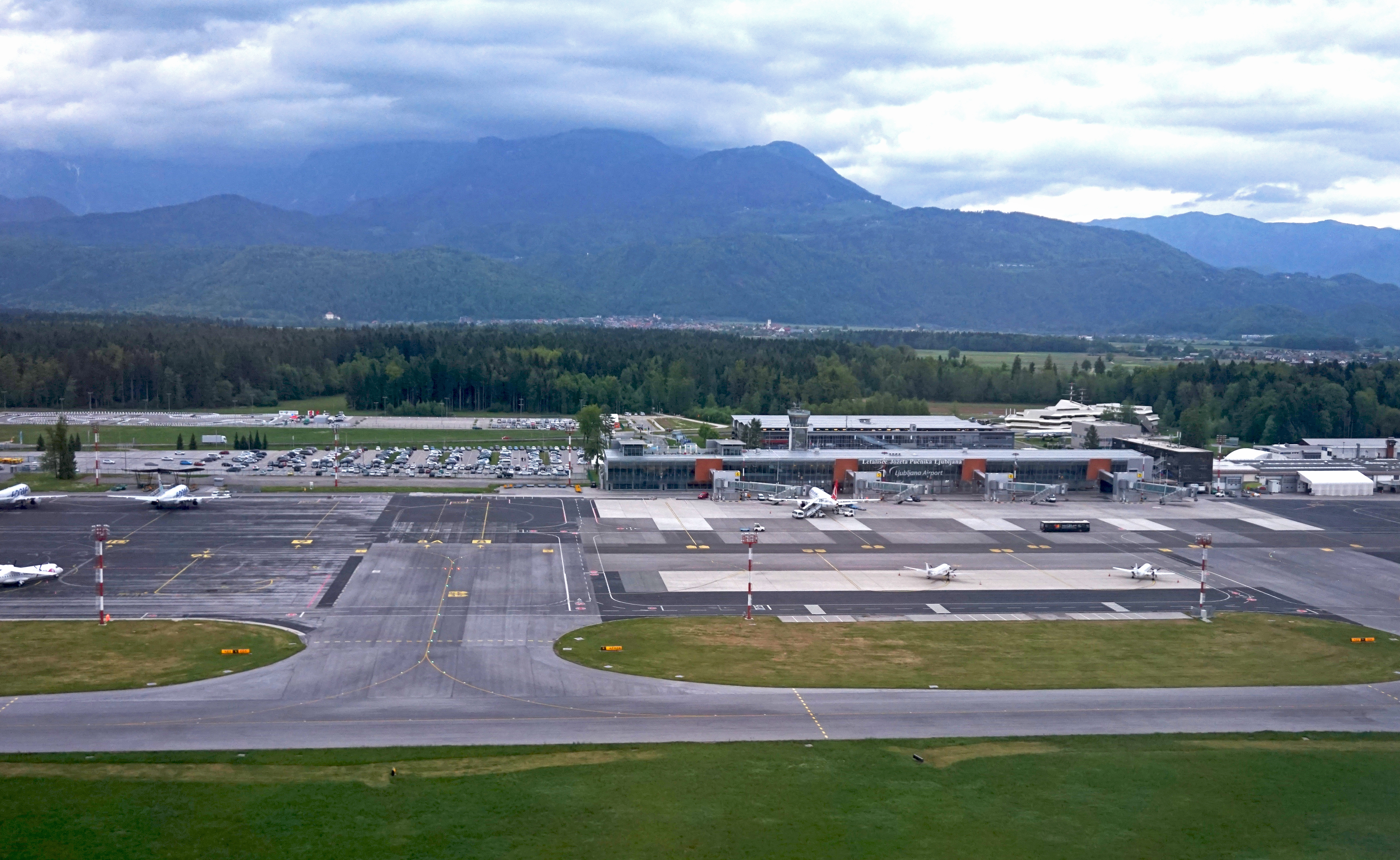 Ljubljana airport, Slovenia.This photograph was taken with a Sony ILCE-5000